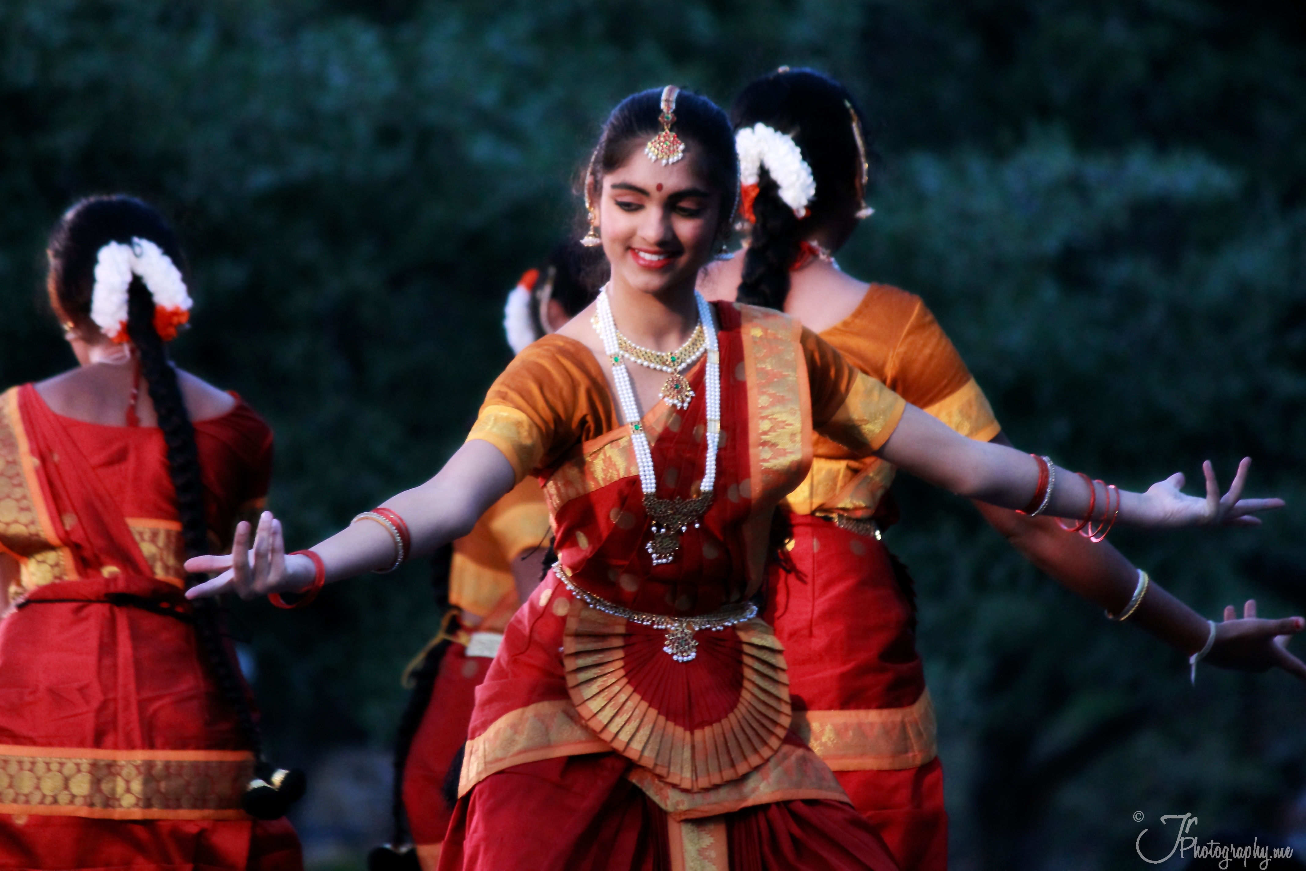 Diwali Divali Dipavali Hindu festival and dance San Antonio, Texas 2011 United States